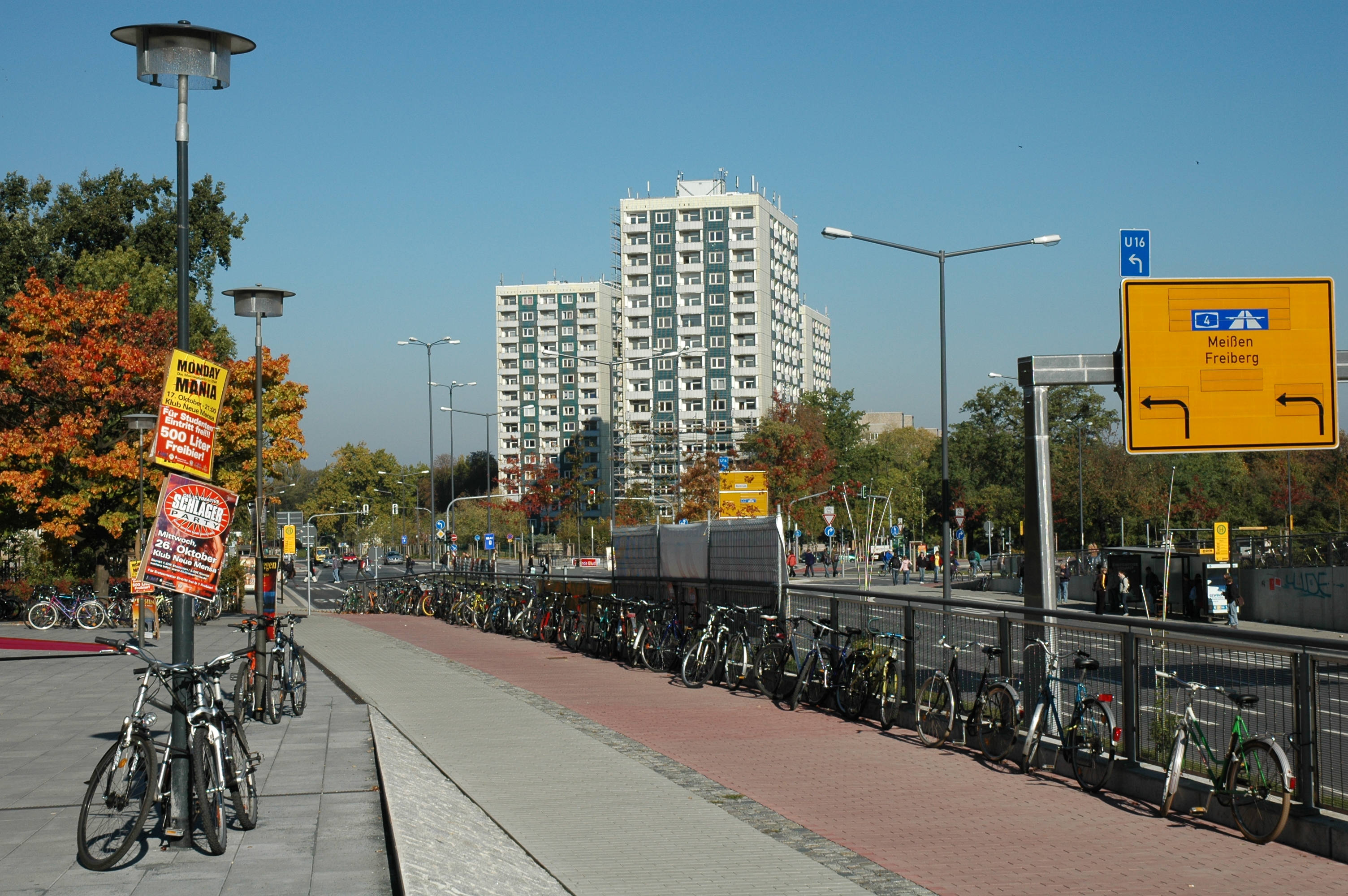 Student accommodation at Hochschulstraße